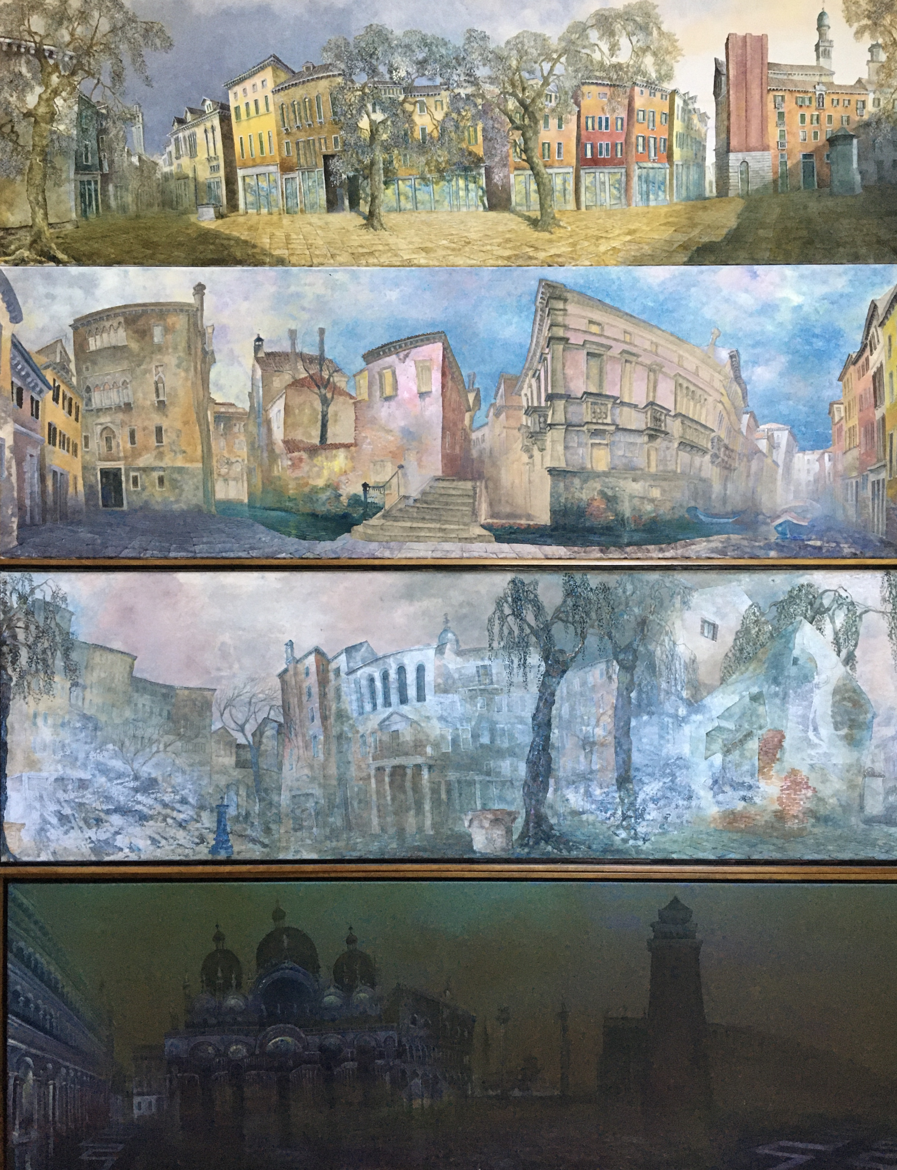 Campieri de Venise